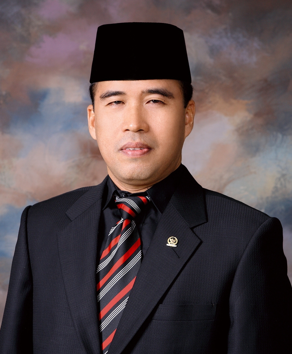 Alirman Sori, member of Regional Representative Council of Republic of Indonesia for period 2009—2014.